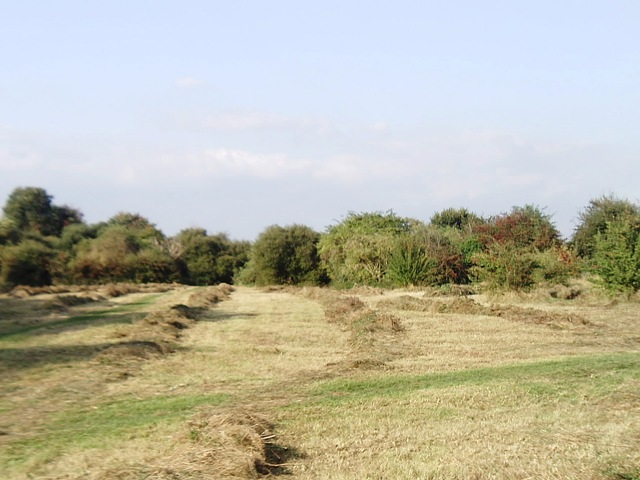 Ham Riverside Lands, Ham. Ham Lands consists of woodland, grassland, wetland and scrub beside the Thames. During the thirty-five years before the Second War the area was extensively used for gravel extraction but after the War the gravel pits were back-filled with rubble from war-damaged buildings in London.